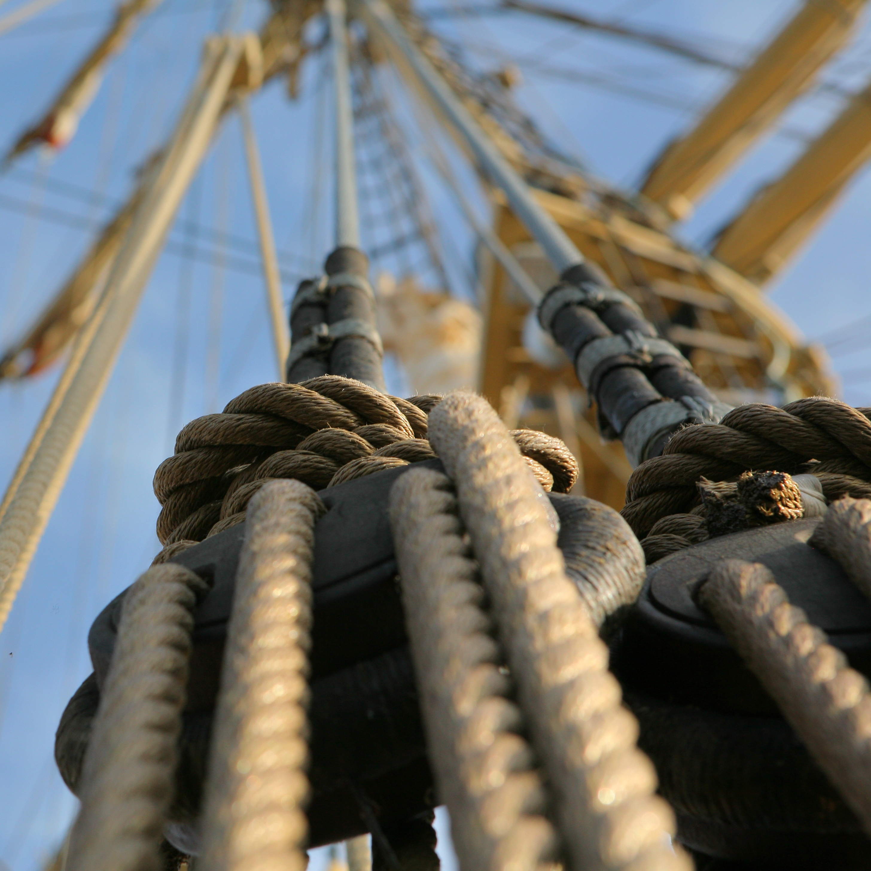 Rigging details, shroud with deadeyes